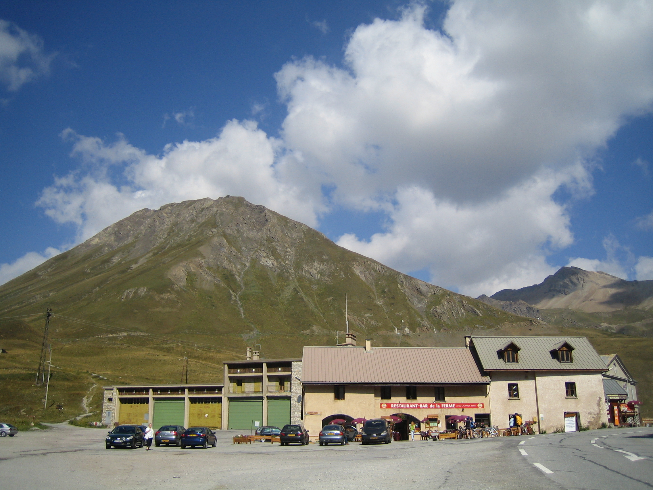 Col du Lautaret and the Galibier, French Alps. Photo taken by User:thbz, summer 2005.